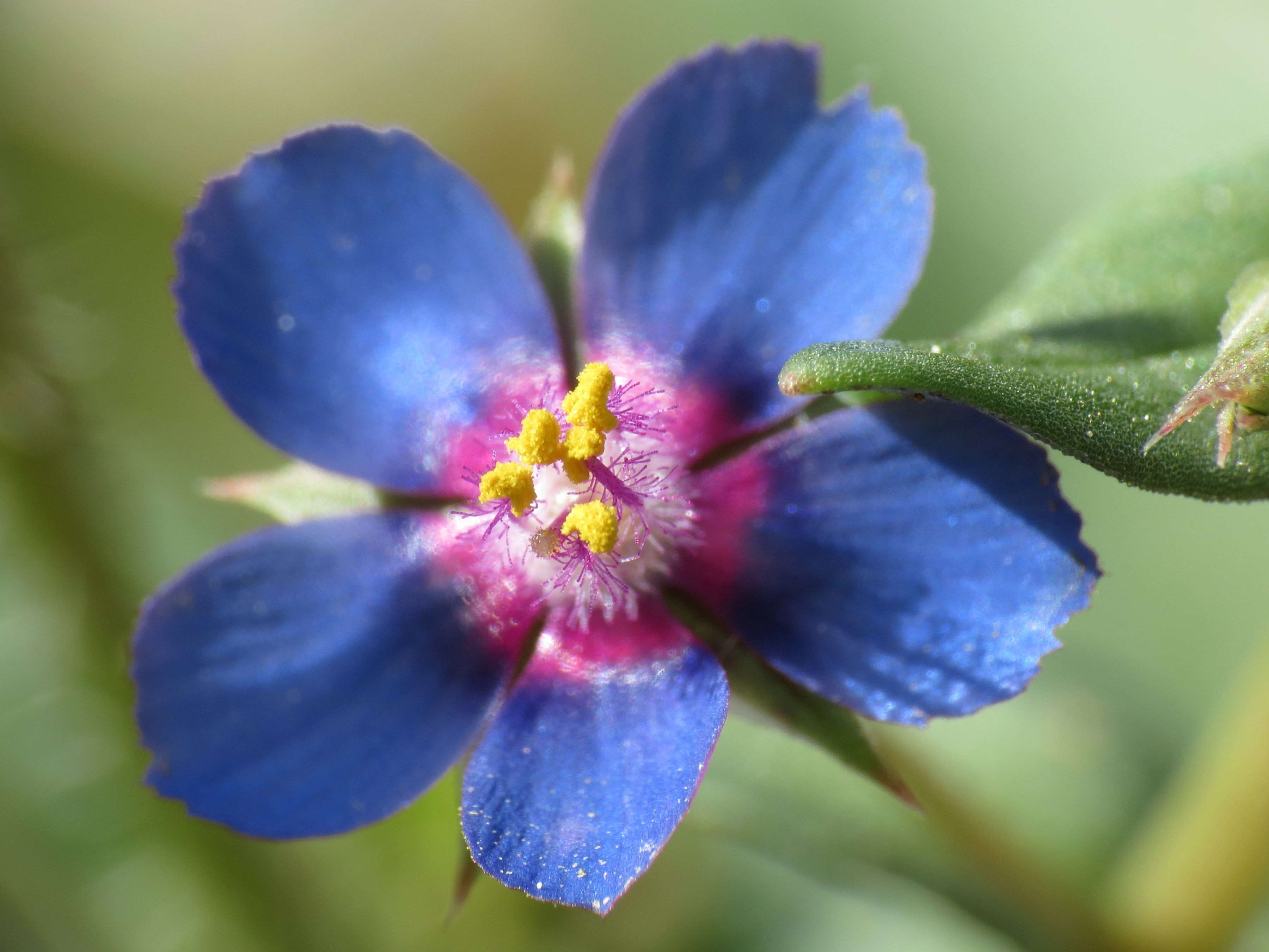 Anagallis arvensis f. azurea L., Scarlet Pimpernel, Pont del Diable, Tarragona, Spain, 16 May 2013